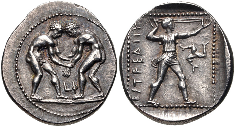 PAMPHYLIA, Aspendos. Circa 380/75-330/25 BC. AR Stater (22mm, 11.01 g, 11h). Two wrestlers grappling; LΦ between, below / Slinger in throwing stance right; EΣTFEΔIIYΣ to left, counterclockwise triskeles of legs to right.